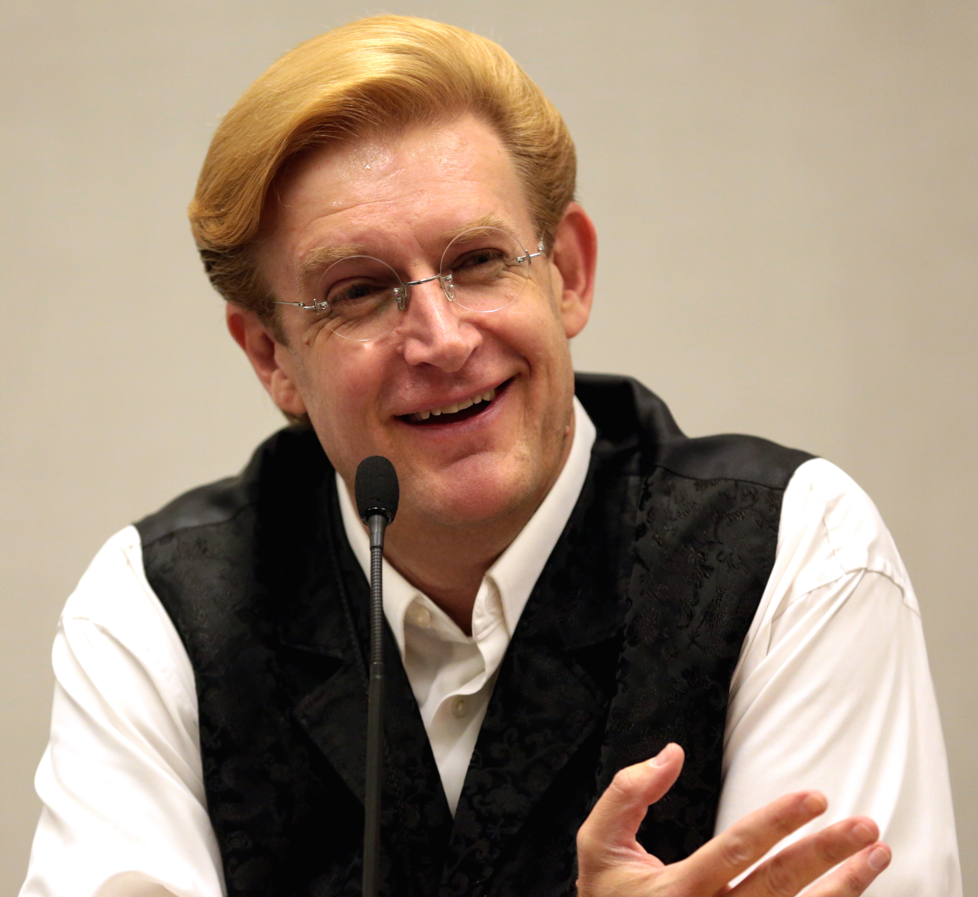 James A. Owen speaking at the 2017 Phoenix Comicon in Phoenix, Arizona.